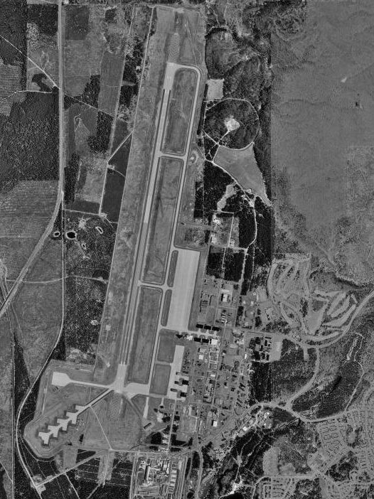 USGS digital orthophoto of Sawyer International Airport, formerly K. I. Sawyer Air Force Base, in Michigan, United States